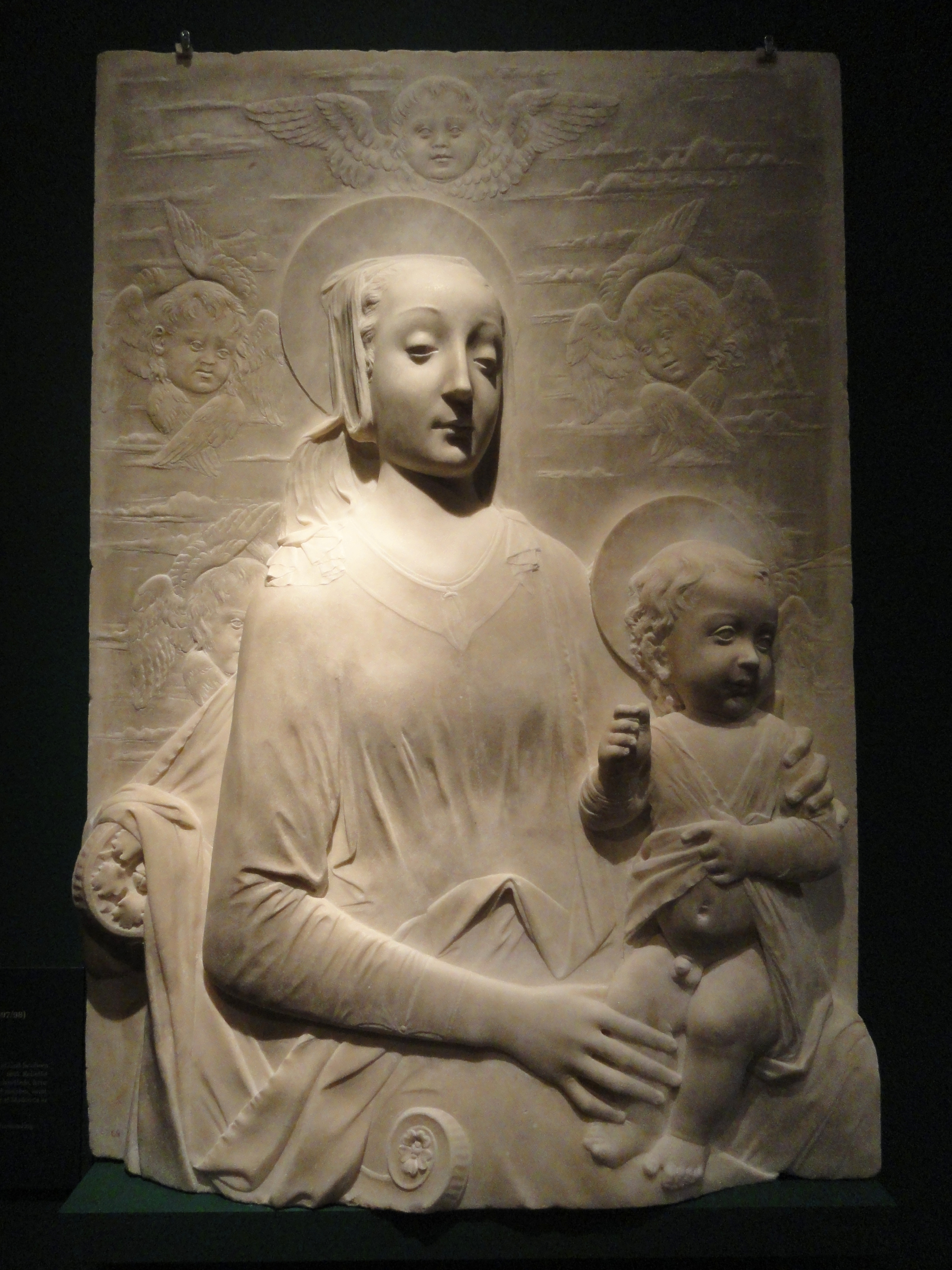 Exhibit in the Ny Carlsberg Glyptotek, Dantes Plads 7, Copenhagen, Denmark. The museum permitted photography without restriction. This artwork is now in the public domain because the artist died more than 70 years ago.